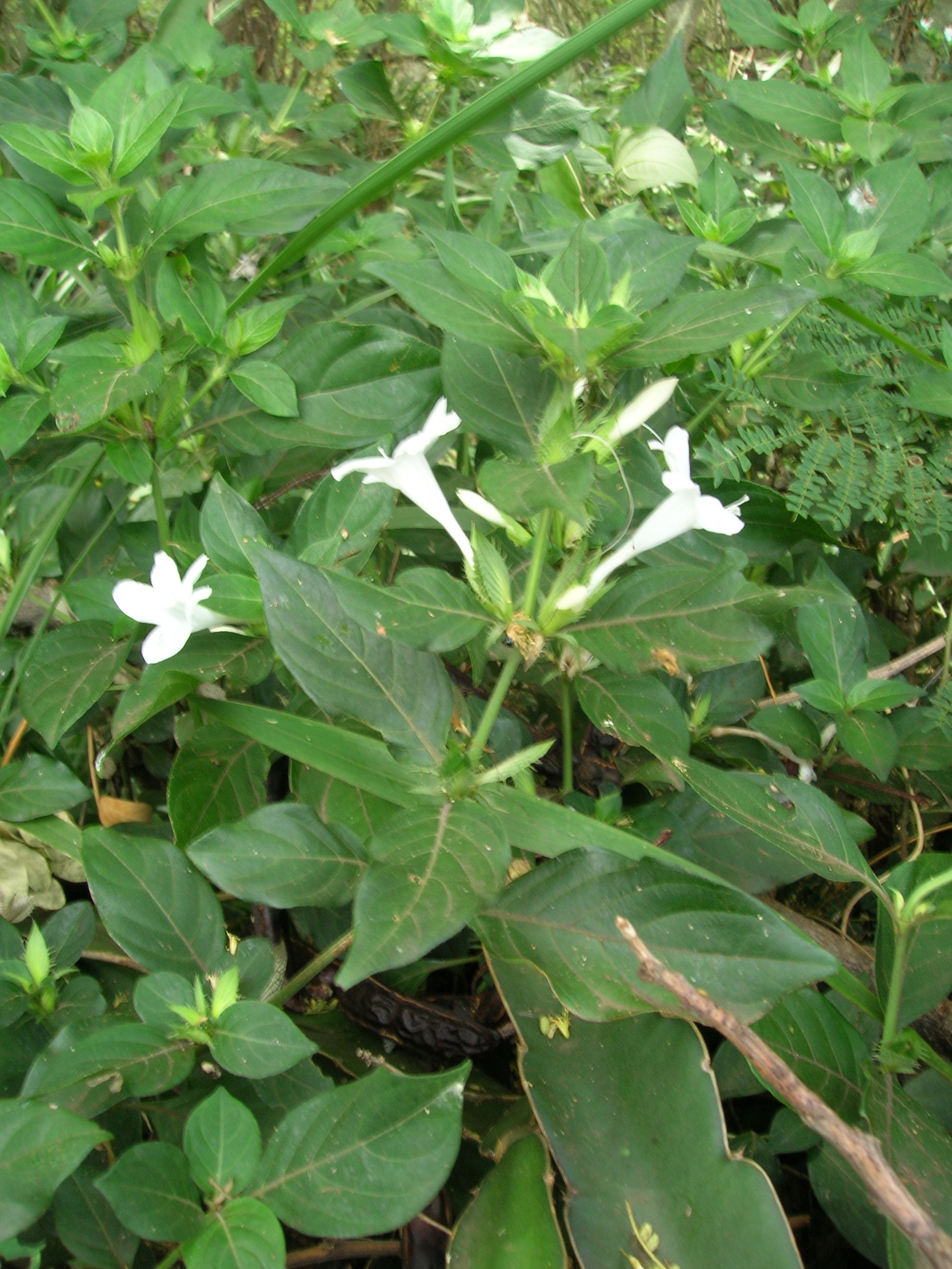 Barleria cristata (habit). Location: Molokai, Kaluaaha